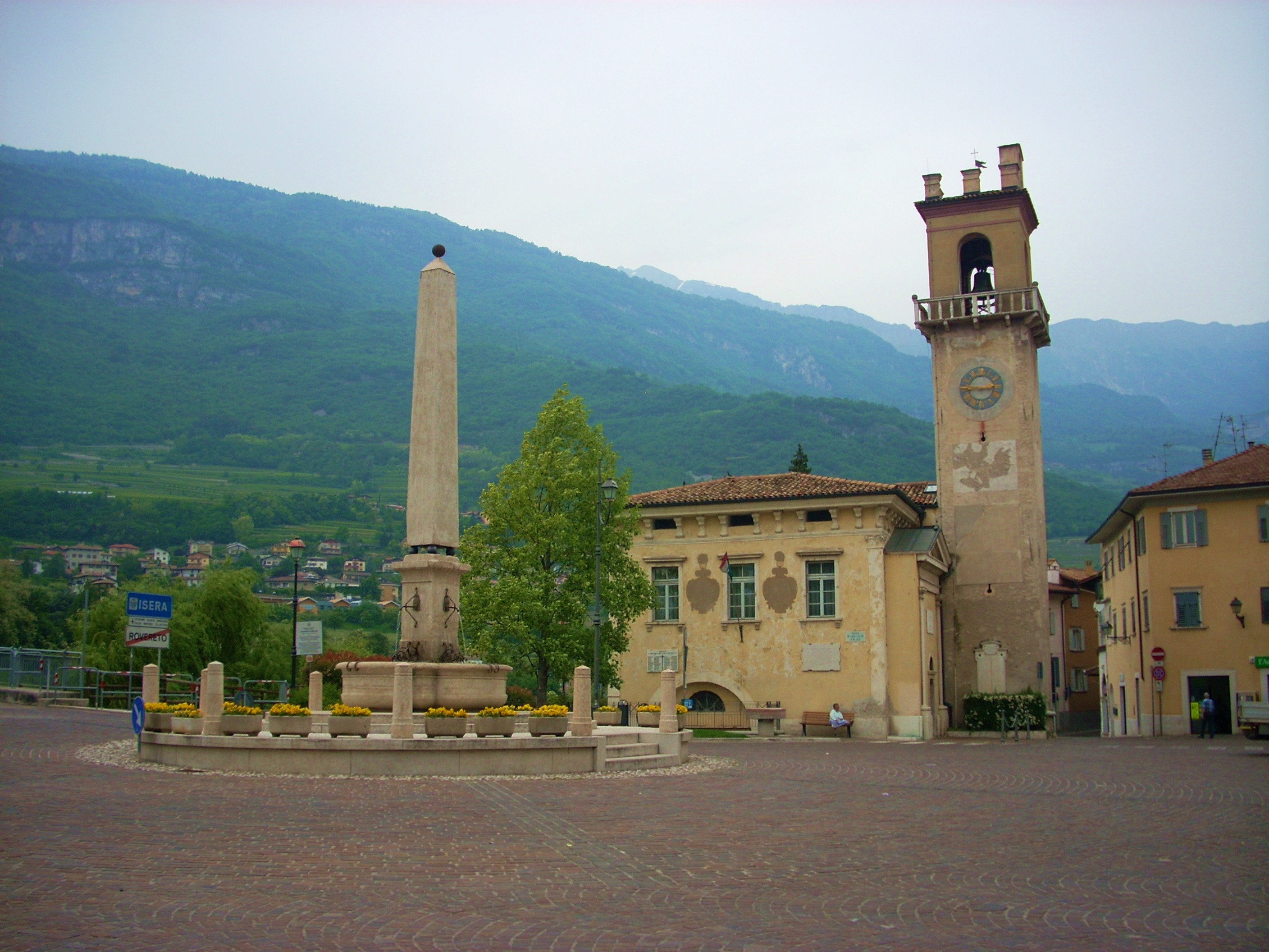 Filzi Square in Borgo Sacco, Rovereto, Province of Trento - Italy